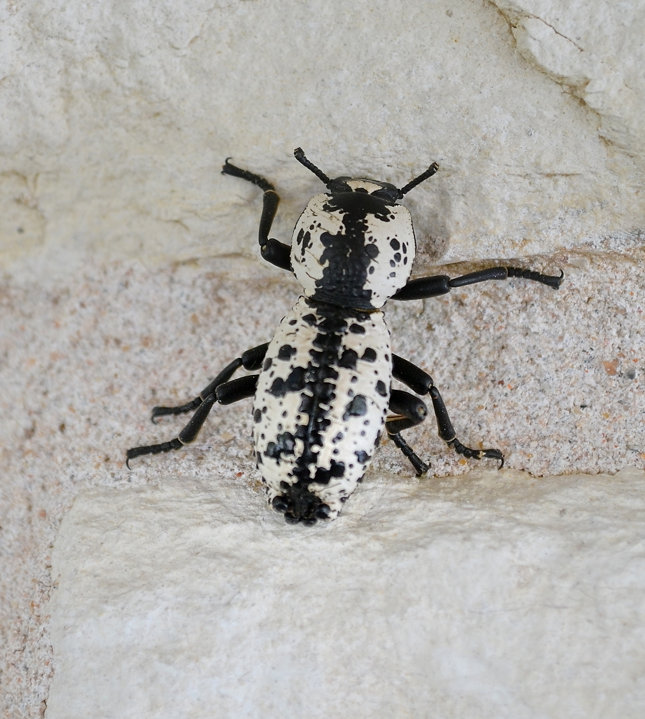 Texas ironclad beetle - found in Travis County near Leander, Texas climbing on a wall